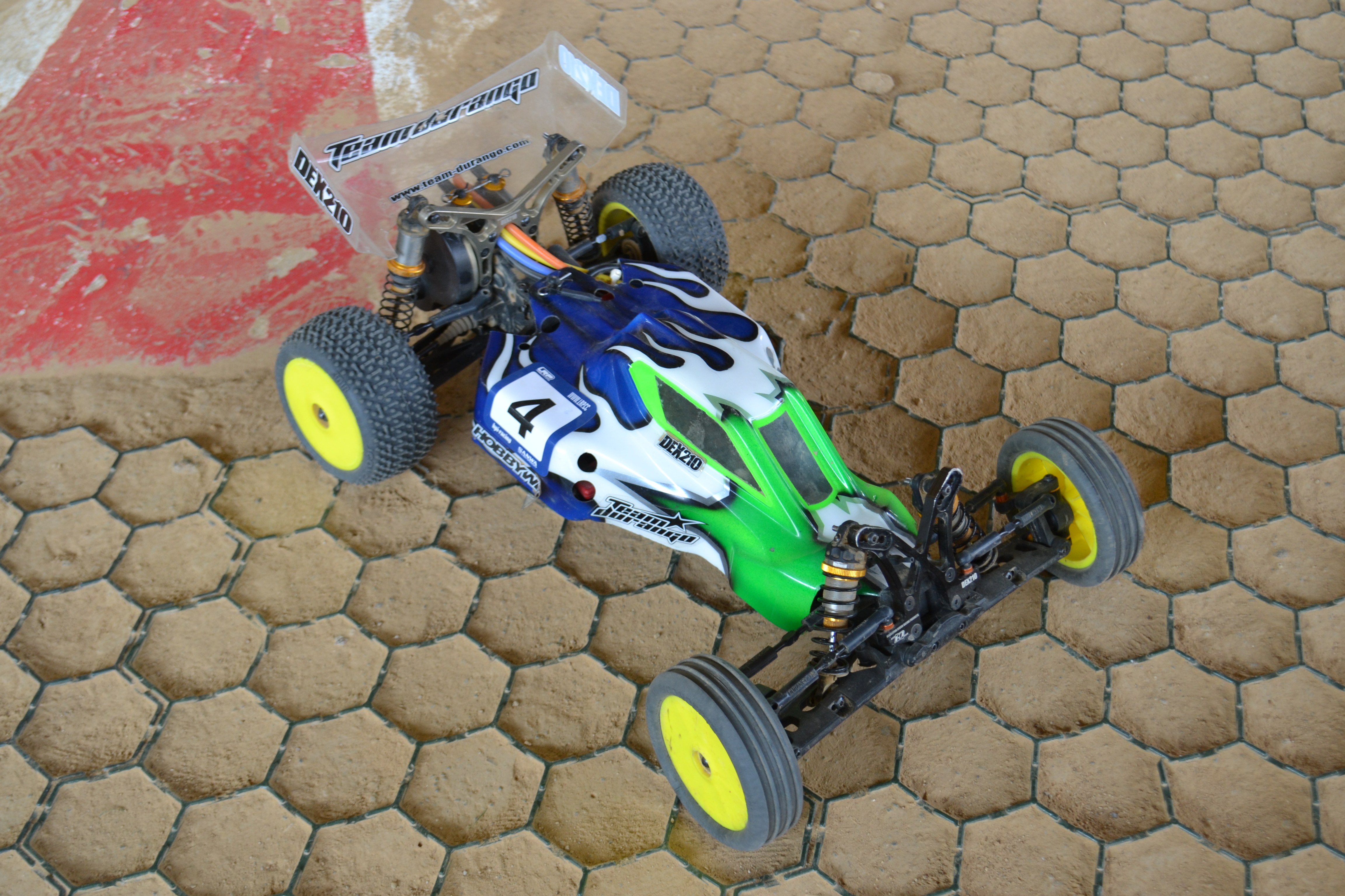 LRP-Offroad-Challenge Buggy 2WD